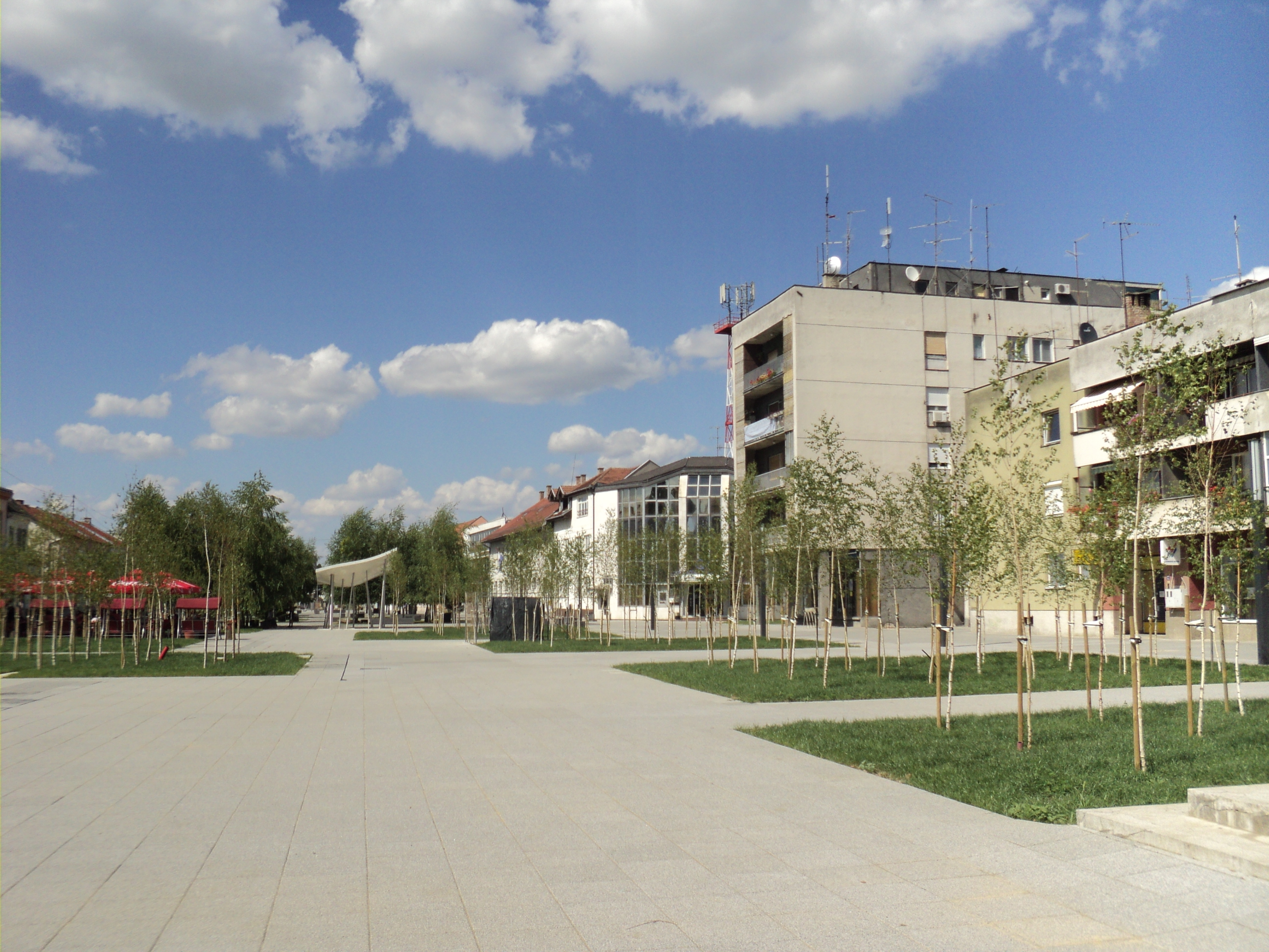 Center of Beli Manastir, Croatia.